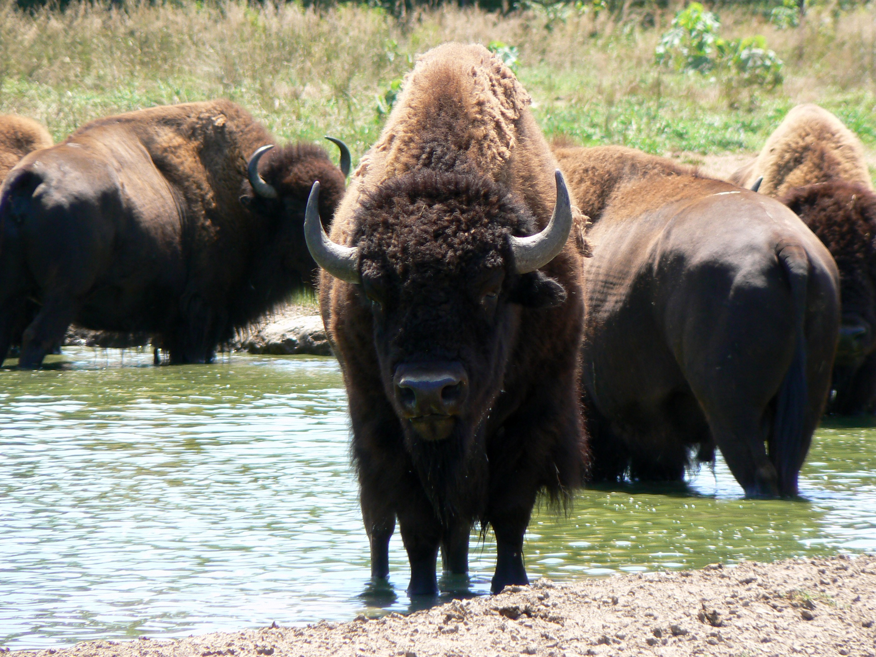 Bison Bison bison at a watering hole